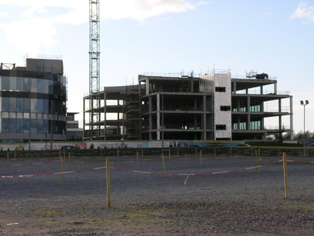 New offices under construction in Blackrock